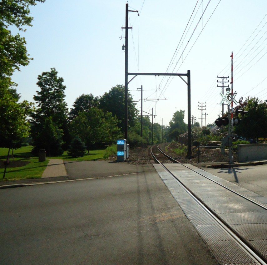 A scene in Berkeley Heights, New Jersey. Looking eastwards at the intersection of Plainfield Avenue.